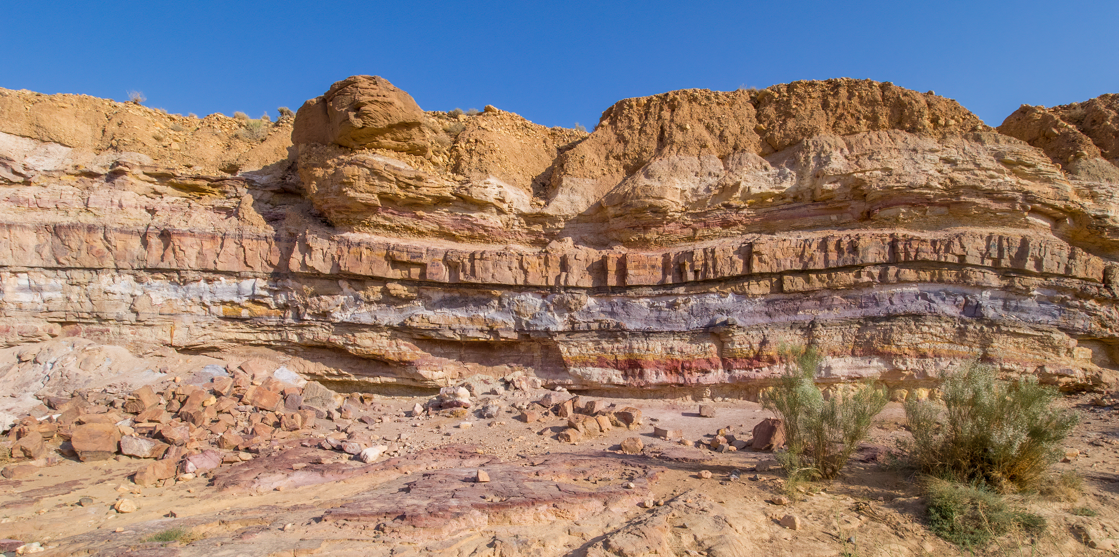 Colorful layers of sedimentary rock in Makhtesh Ramon, Israel.